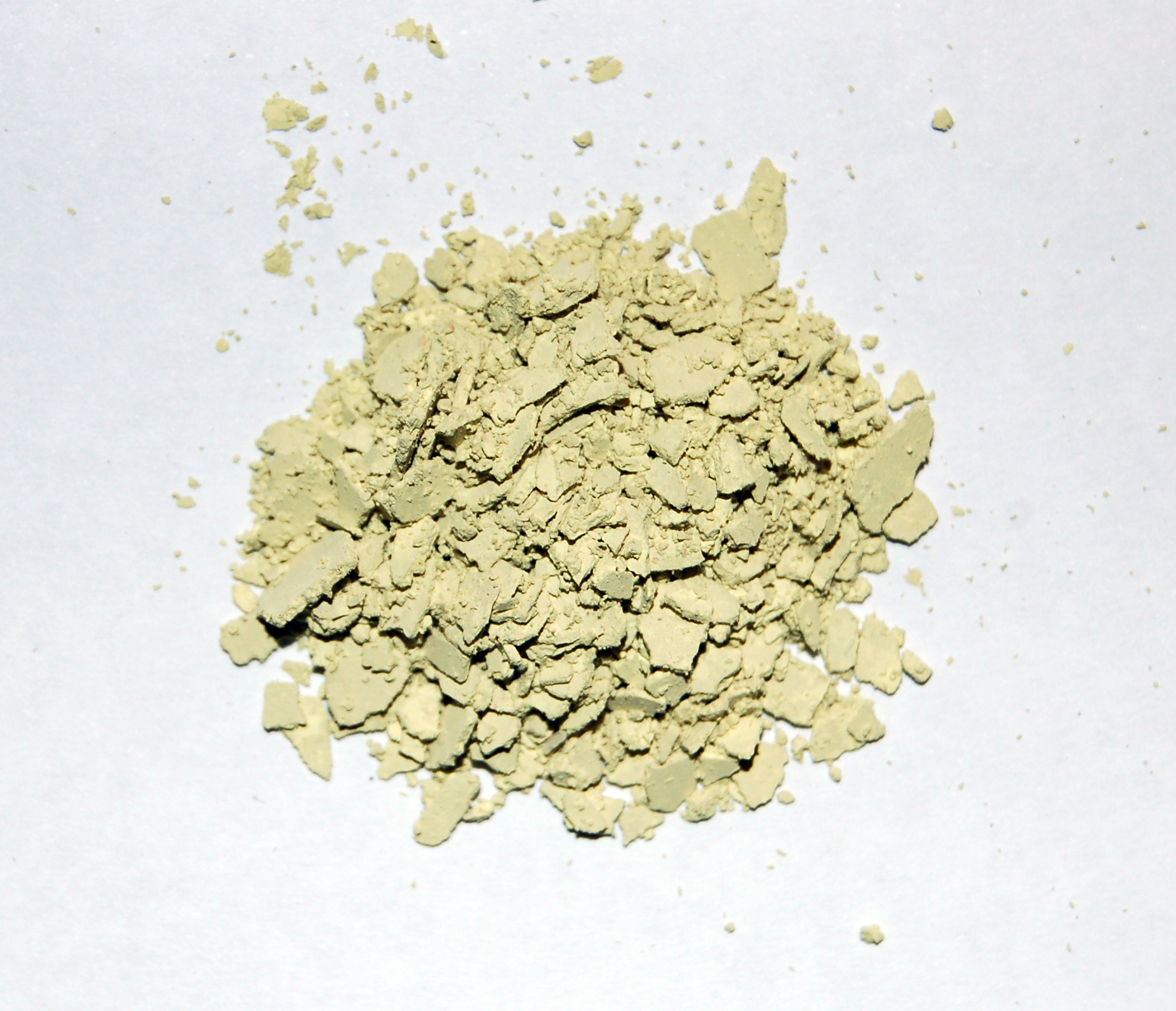 Photograph of a sample of silver carbonate, AgCO3.